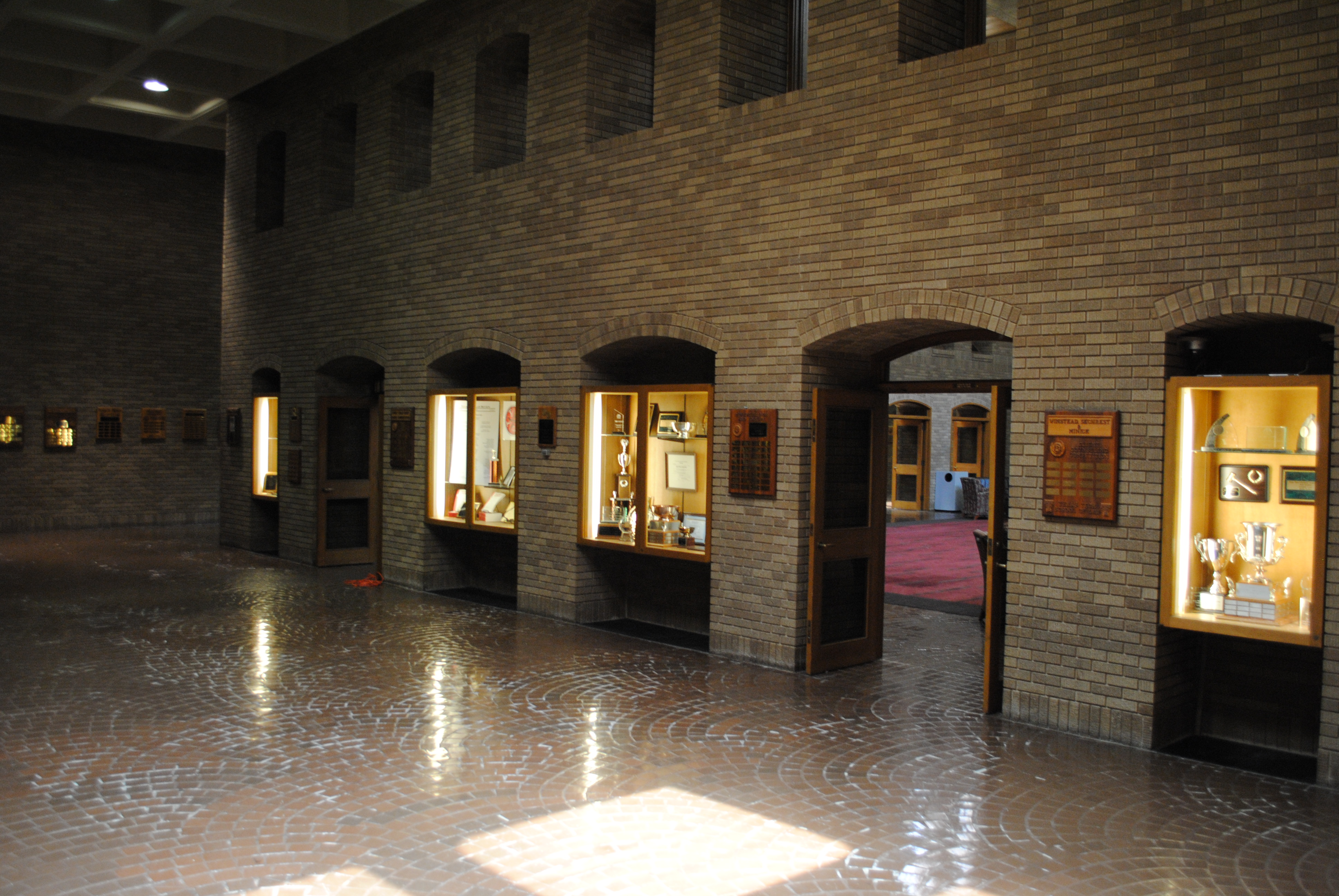 Texas Tech Law School Hallway